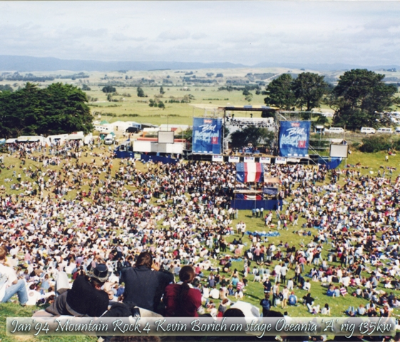 Blue Mountain Rock Festival - photo taken and uploaded by Paul Moss, Photographer, Artist, Paul Moss Photographer Artist NZ